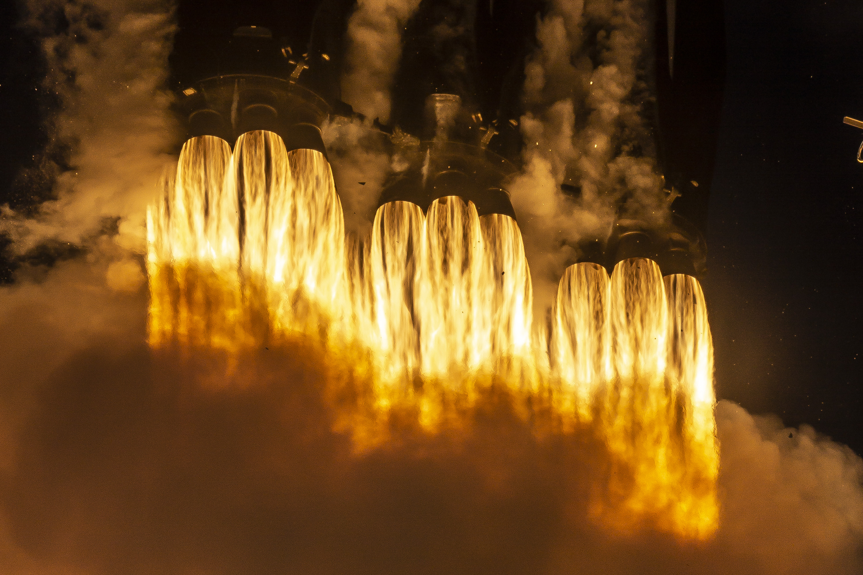 Twenty-seven Merlin rocket engines firing during the launch of a Falcon Heavy rocket at Kennedy Space Center launch pad 39A. The rocket carried the Arabsat-6A communications satellite to geosynchronous orbit on on April 11, 2019.